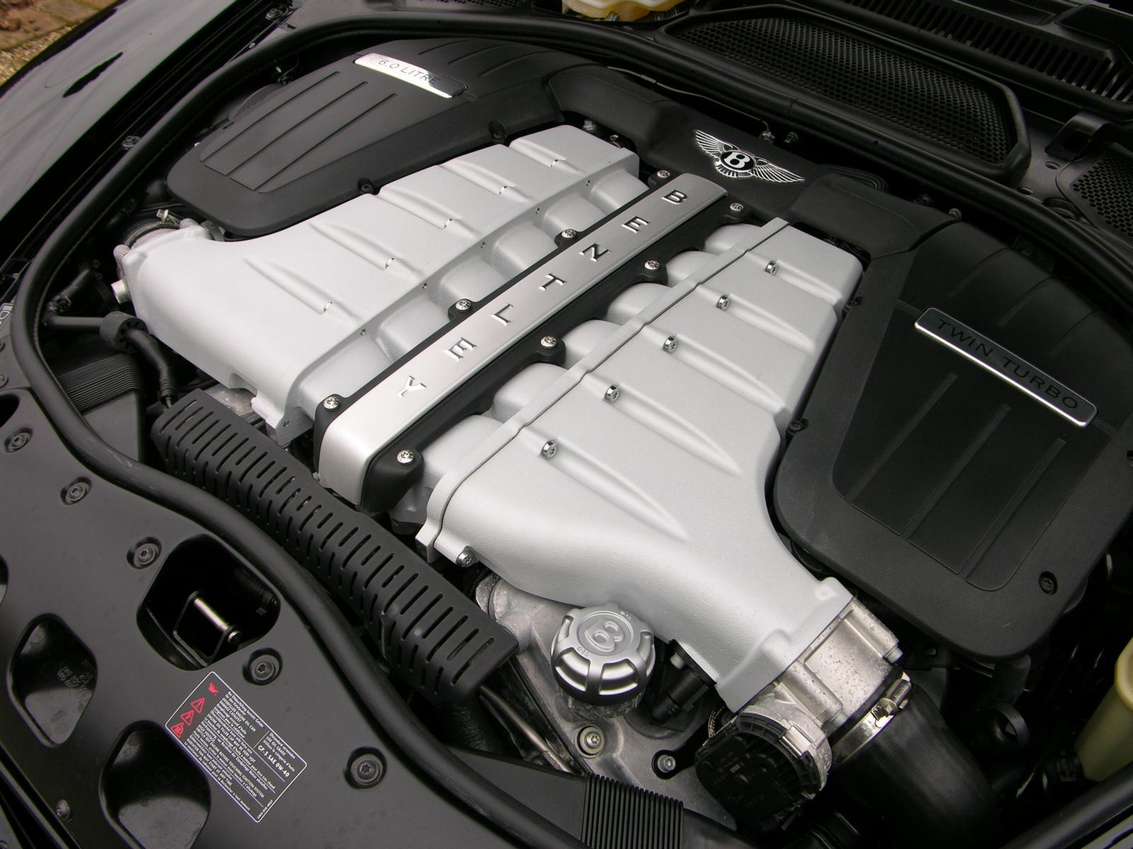 2009 Bentley Continental GTC